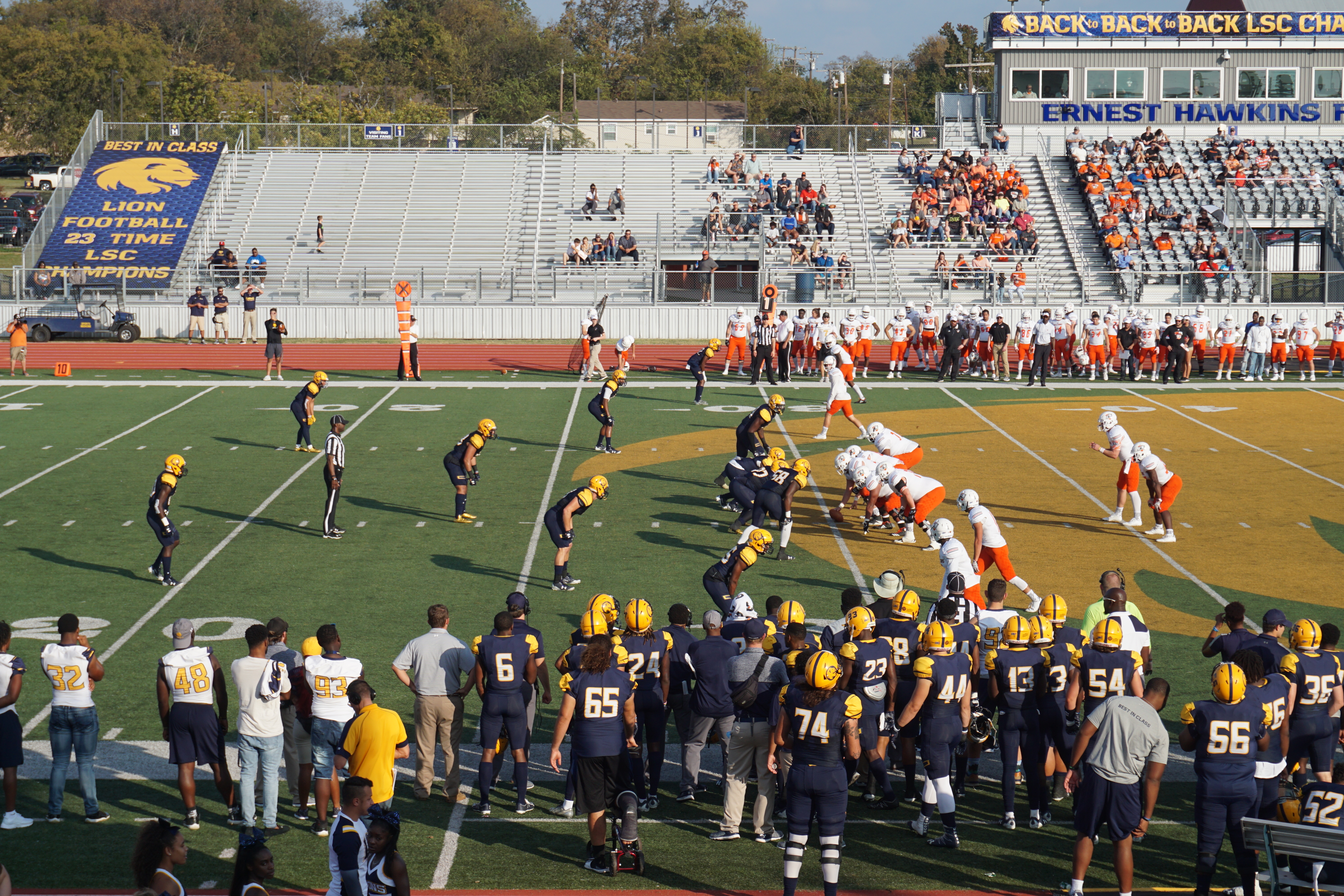 Texas–Permian Basin on offense during the Texas–Permian Basin Falcons vs. Texas A&M–Commerce Lions football game at Memorial Stadium in Commerce, Texas (United States). A&M–Commerce won 52–0.